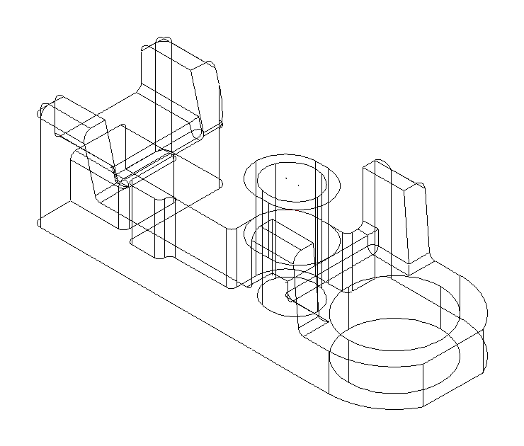 A "housing" part (based on a model originally created by Messerschmitt) ... it has been available from the National Institute of Standards and Technology as an industry recognized CAD/CAM interoperability benchmark since 1983 ... to download a copy for testing IGES postprocessor software. Rotate 3D model of this part with Java I created this GIF file in 2006 by processing an IGES file using proprietary software that I wrote in 1988. —Dennette 16:55, 5 June 2007 (UTC)